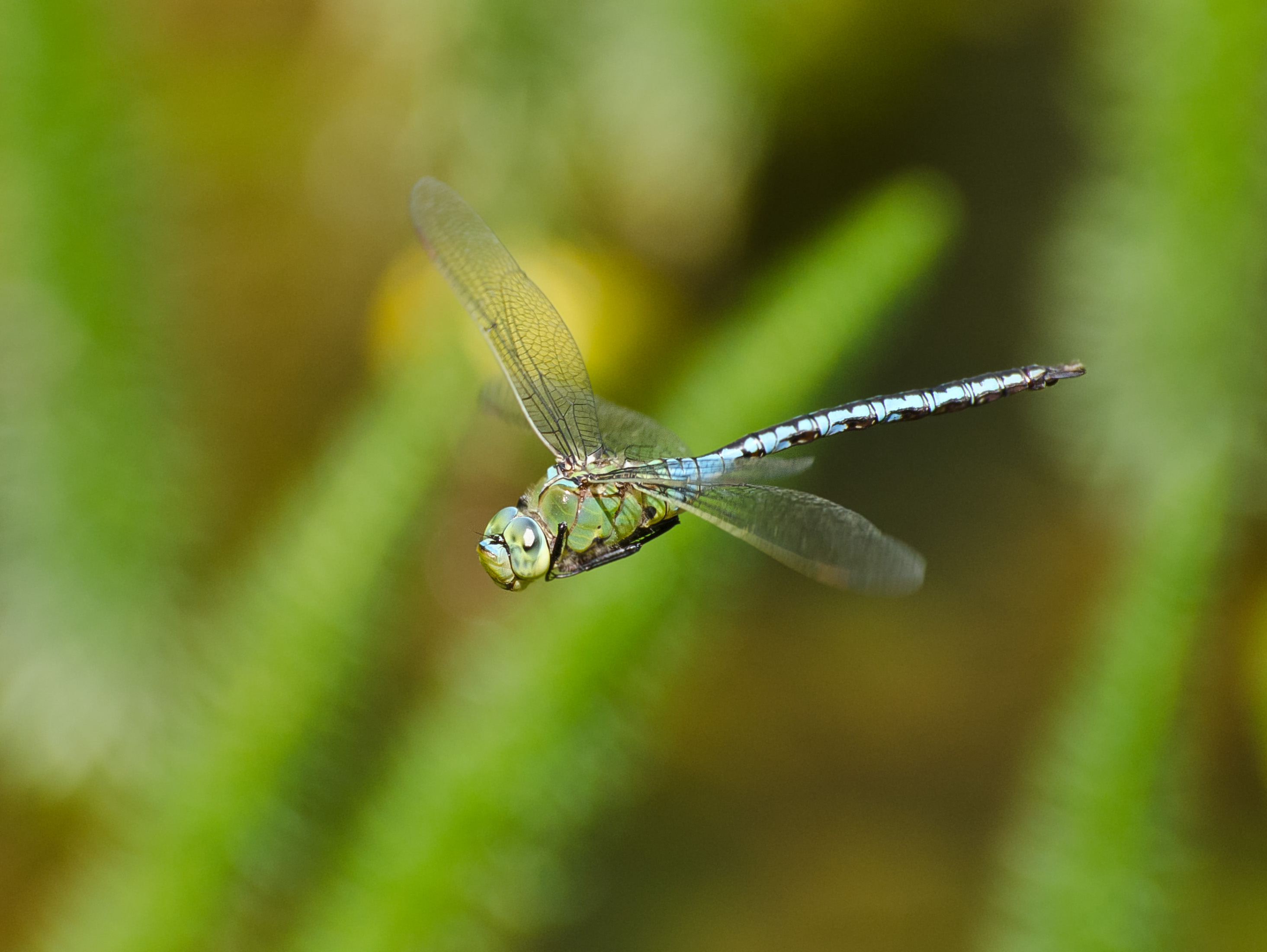 Blue Emperor (Anax imperator) in flight. Forest pond near Stuttgart, Germany.